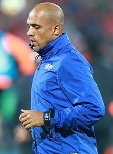 Ahmed Al-Kaf